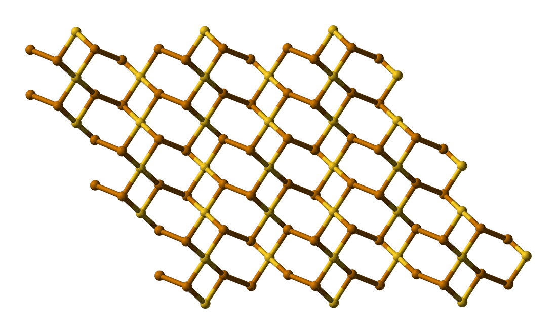 Ball-and-stick model of part of the crystal structure of calaverite (gold ditelluride), AuTe2.